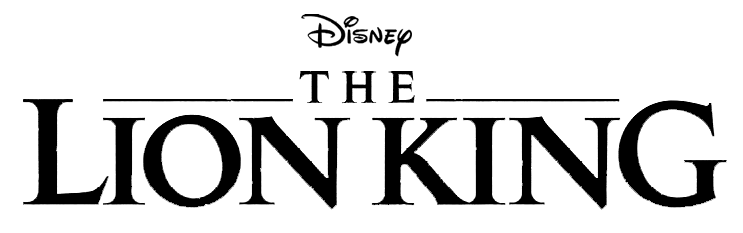 el rey leon logo